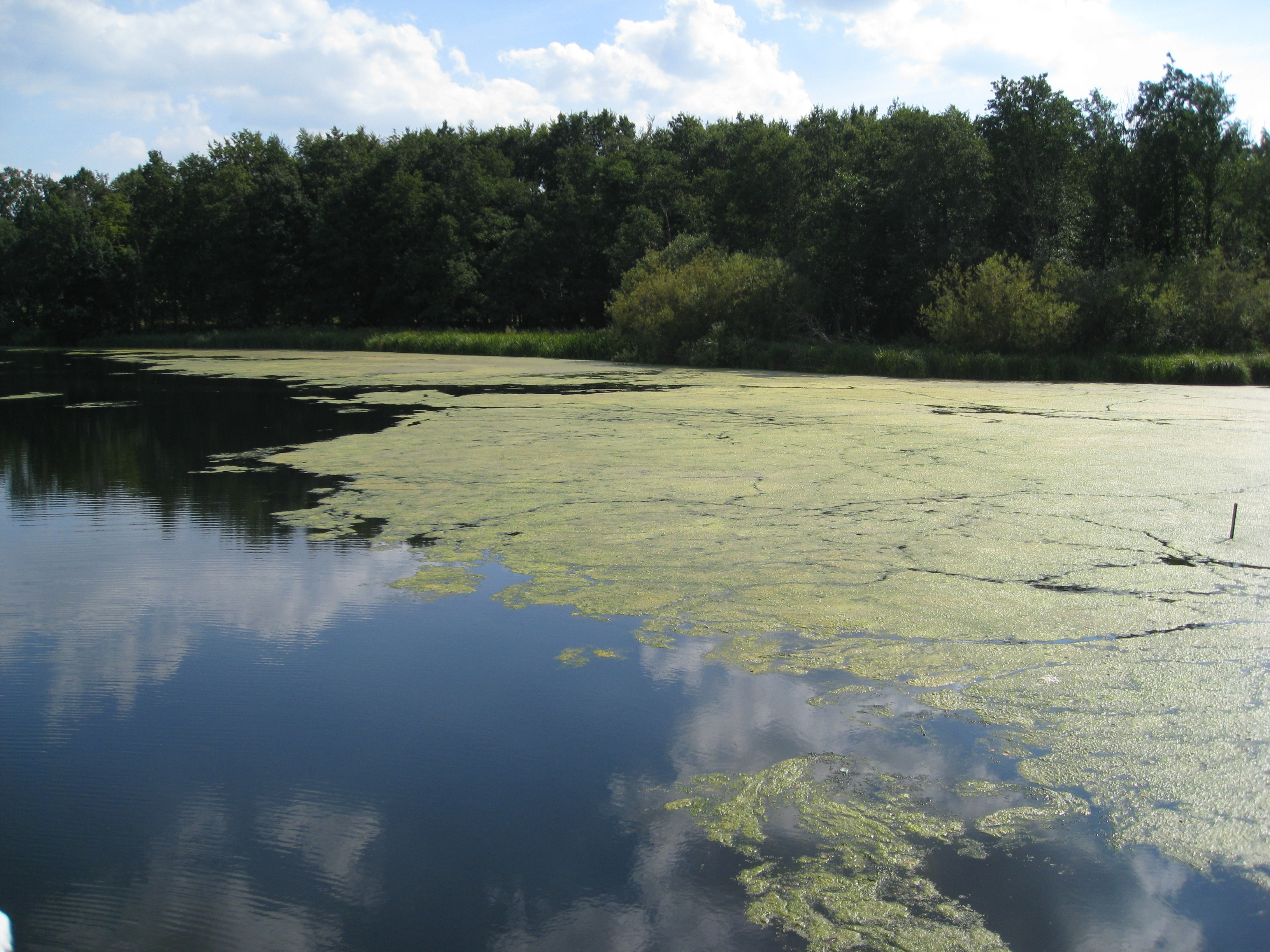 An algae mat on a eutrophied lake in Schleswig-Holstein, Germany in August 2009.